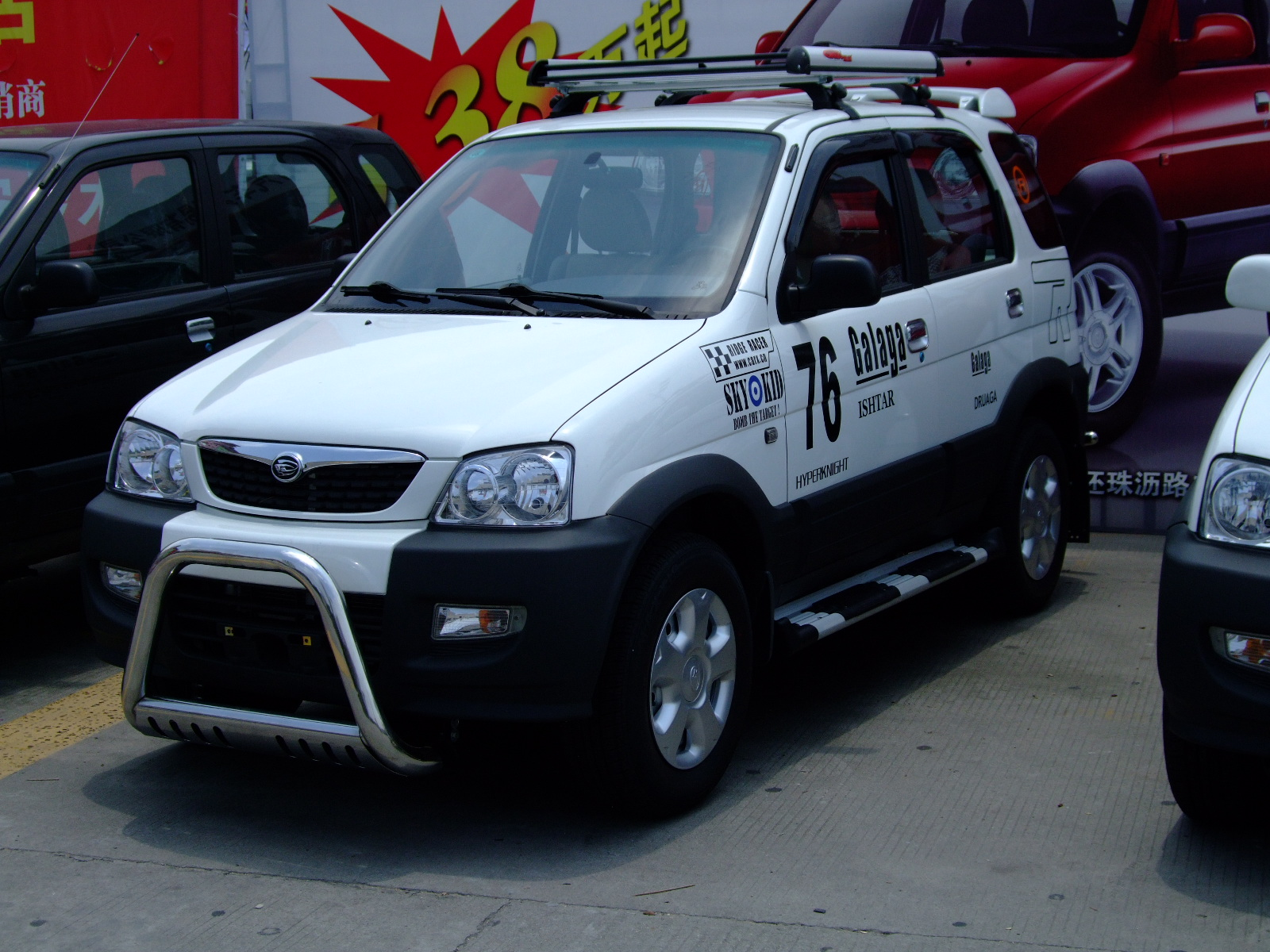 Zotye2008 SUV